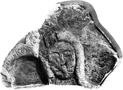 Part of an engraving of Gertrude-Petronilla of Lorraine